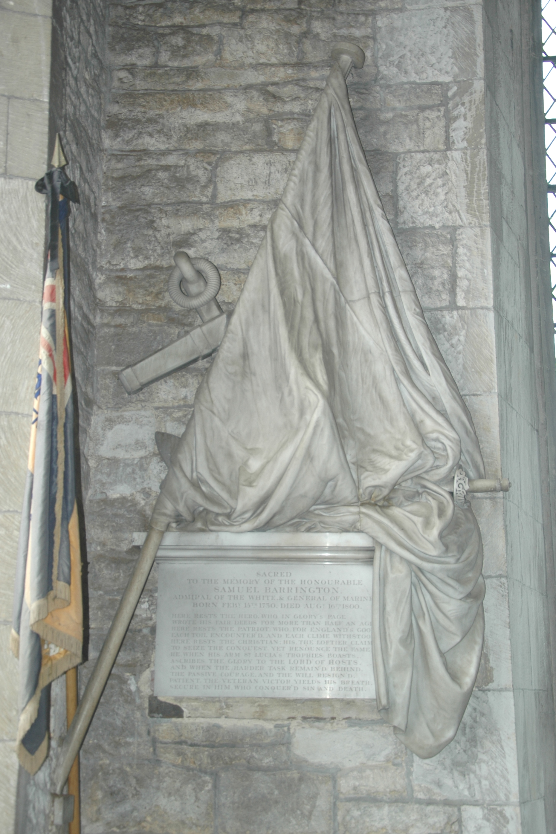 Church of England parish church of St Andrew, Shrivenham, Vale of White Horse: marble monument to Admiral Samuel Barrington, died 1800